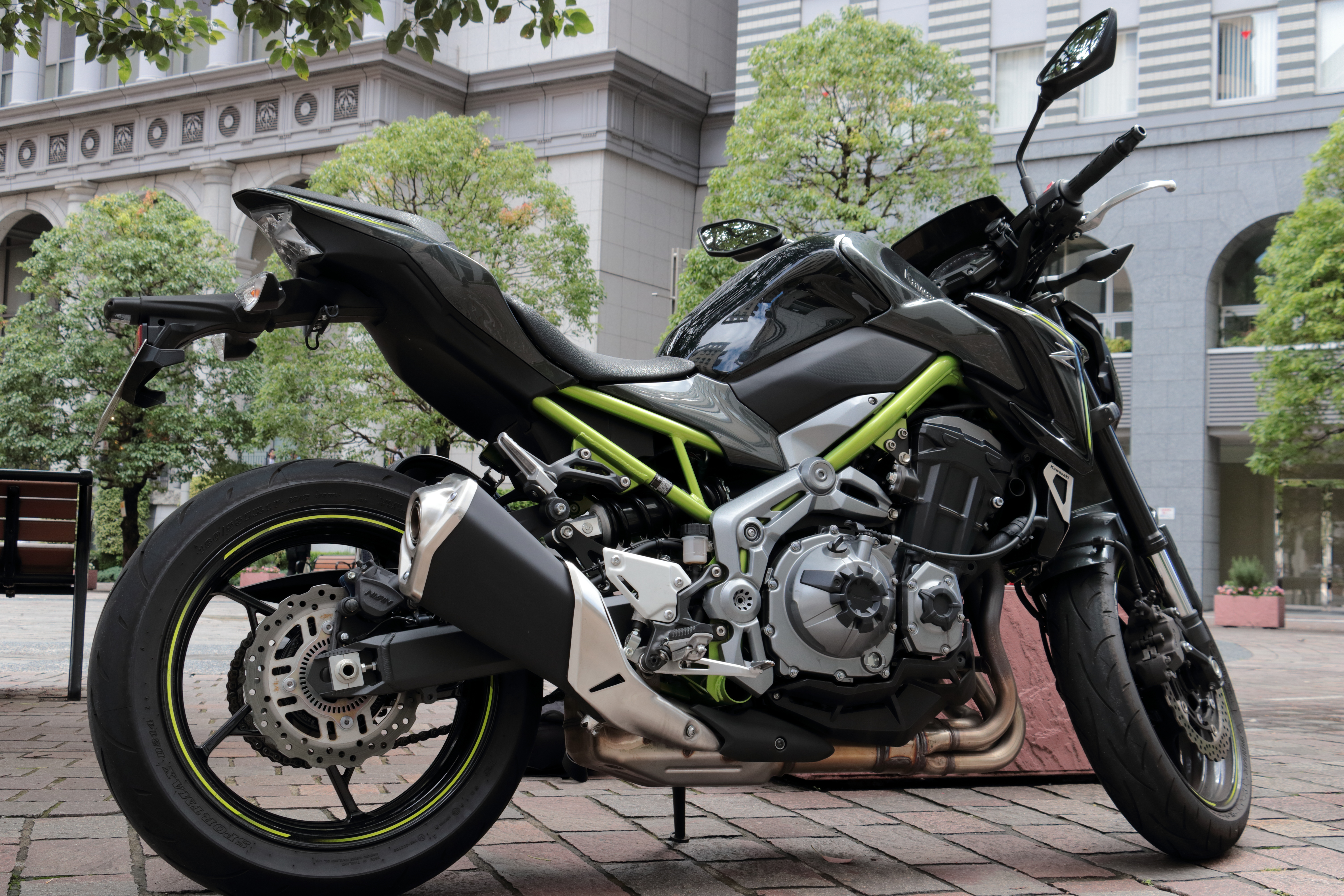 Kawasaki Z900